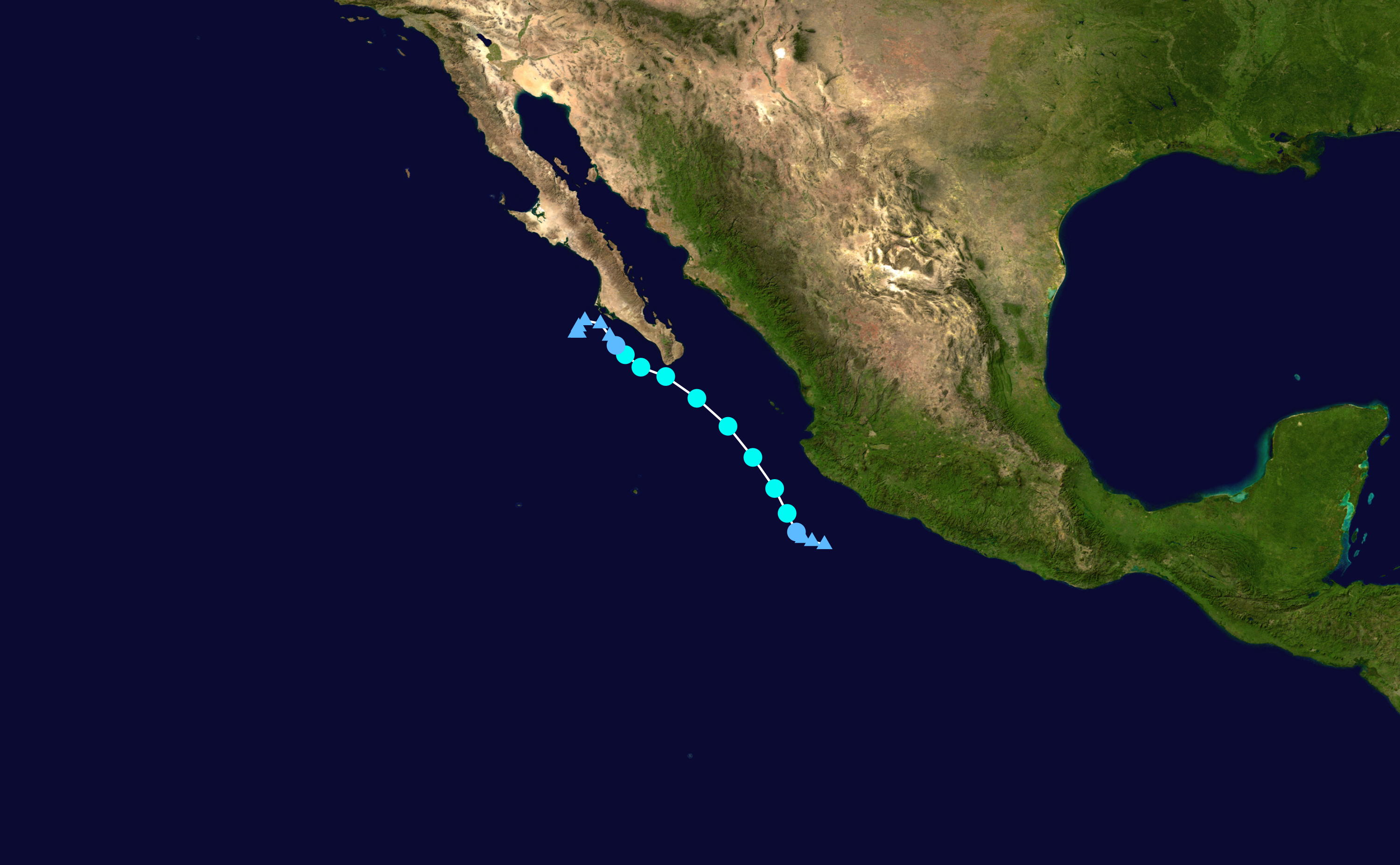 Track map of Tropical Storm Lorena of the 2013 Pacific hurricane season. The points show the location of the storm at 6-hour intervals. The colour represents the storm's maximum sustained wind speeds as classified in the Saffir–Simpson scale (see below), and the shape of the data points represent the nature of the storm, according to the legend below. Saffir–Simpson scale Tropical depression≤38 mph≤62 km/h Category 3111–129 mph178–208 km/h Tropical storm39–73 mph63–118 km/h Category 4130–156 mph209–251 km/h Category 174–95 mph119–153 km/h Category 5≥157 mph≥252 km/h Category 296–110 mph154–177 km/h Unknown Storm type Tropical cyclone Subtropical cyclone Extratropical cyclone / Remnant low / Tropical disturbance / Monsoon depression